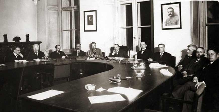 Polish cabinet of Kazimierz Bartel 1926